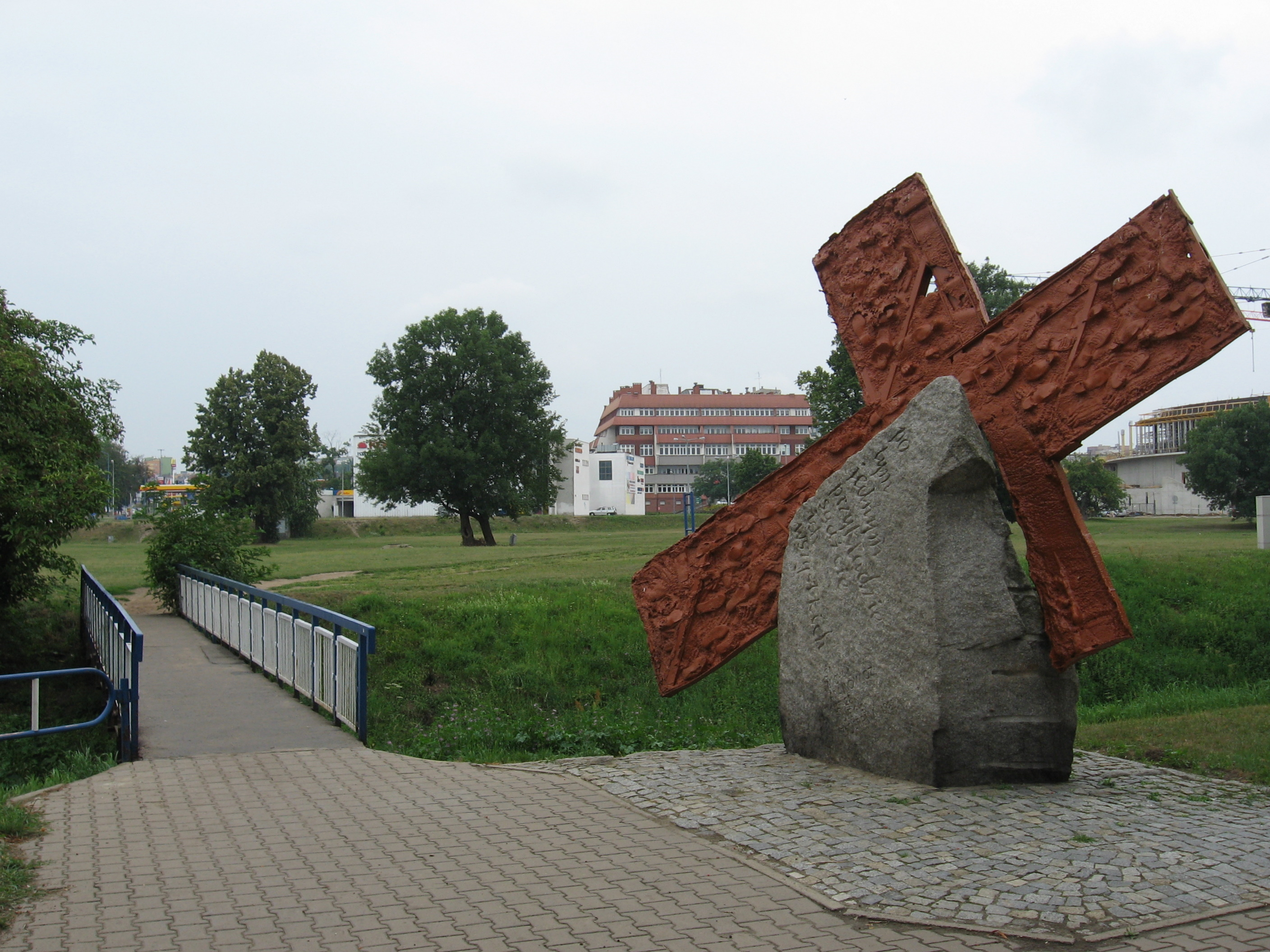 Cross situated as a keepsake of Michał Adamowicz, which was shot on brigde during events of Lubin crime.